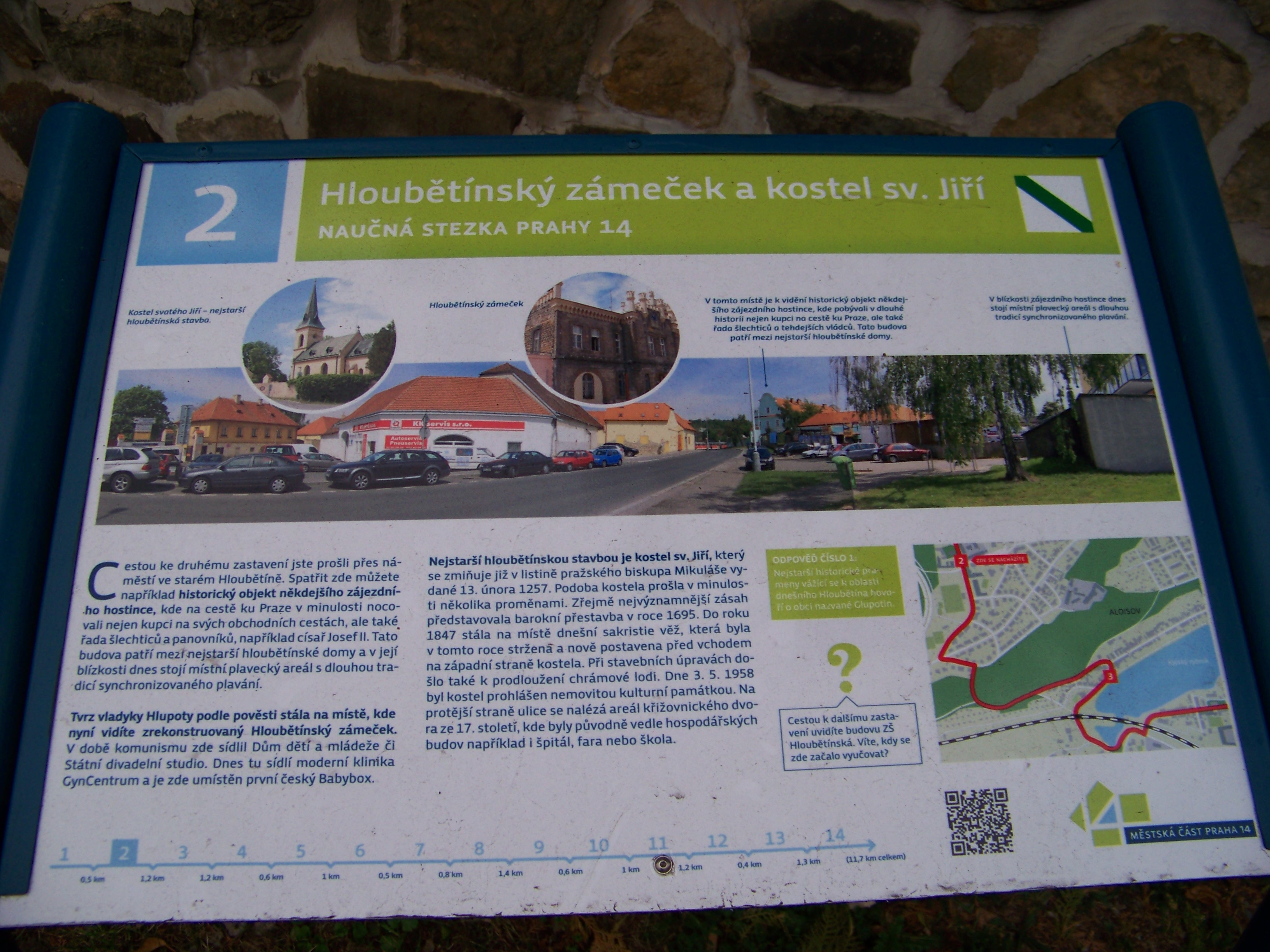 Prague-Hloubětín, the Czech Republic. Hloubětínská 3/13, a castle and Saint George church, a board of the educational trail.